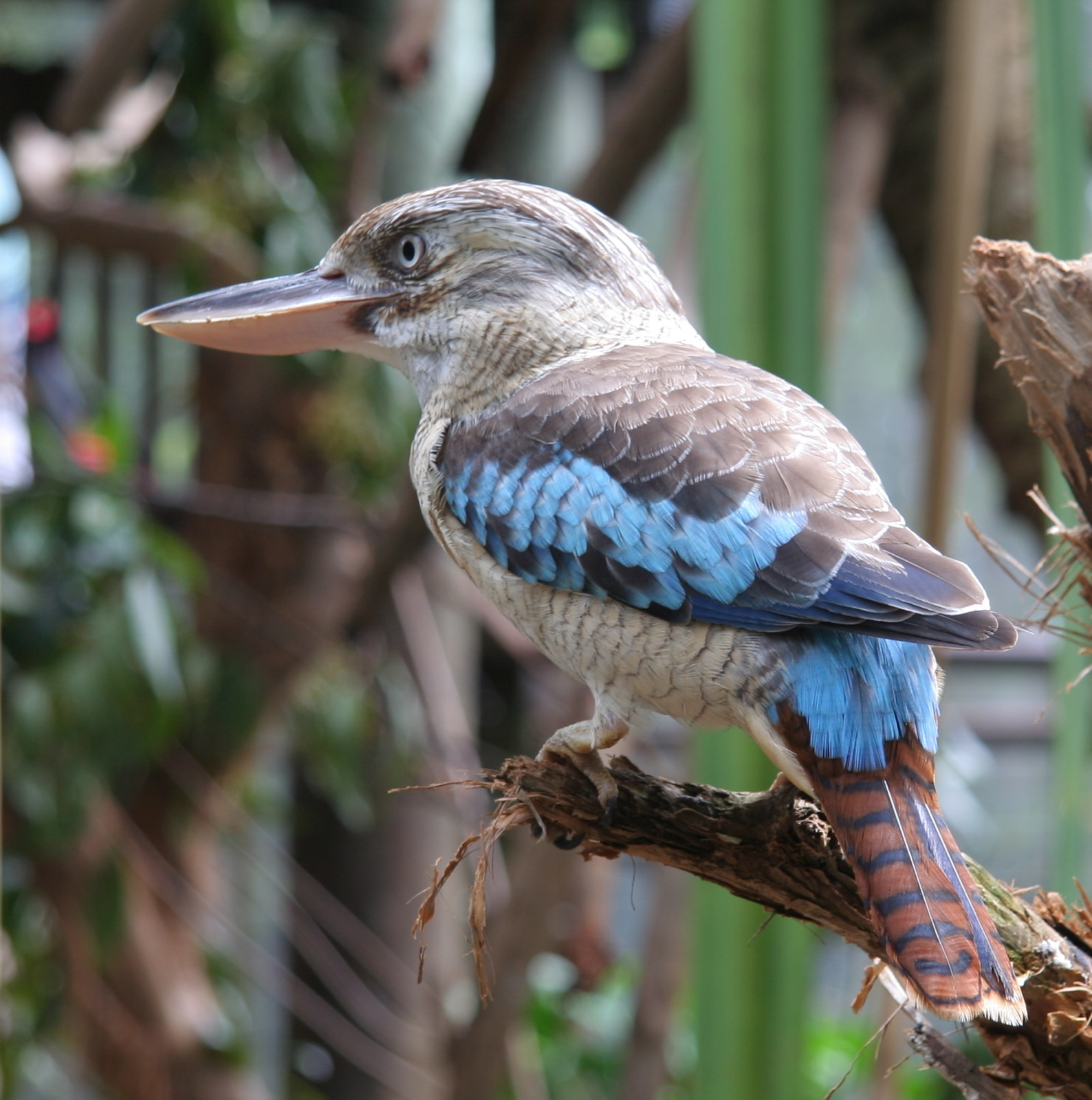 Blue-winged Kookaburra (Dacelo leachii). A female perching on a stump.